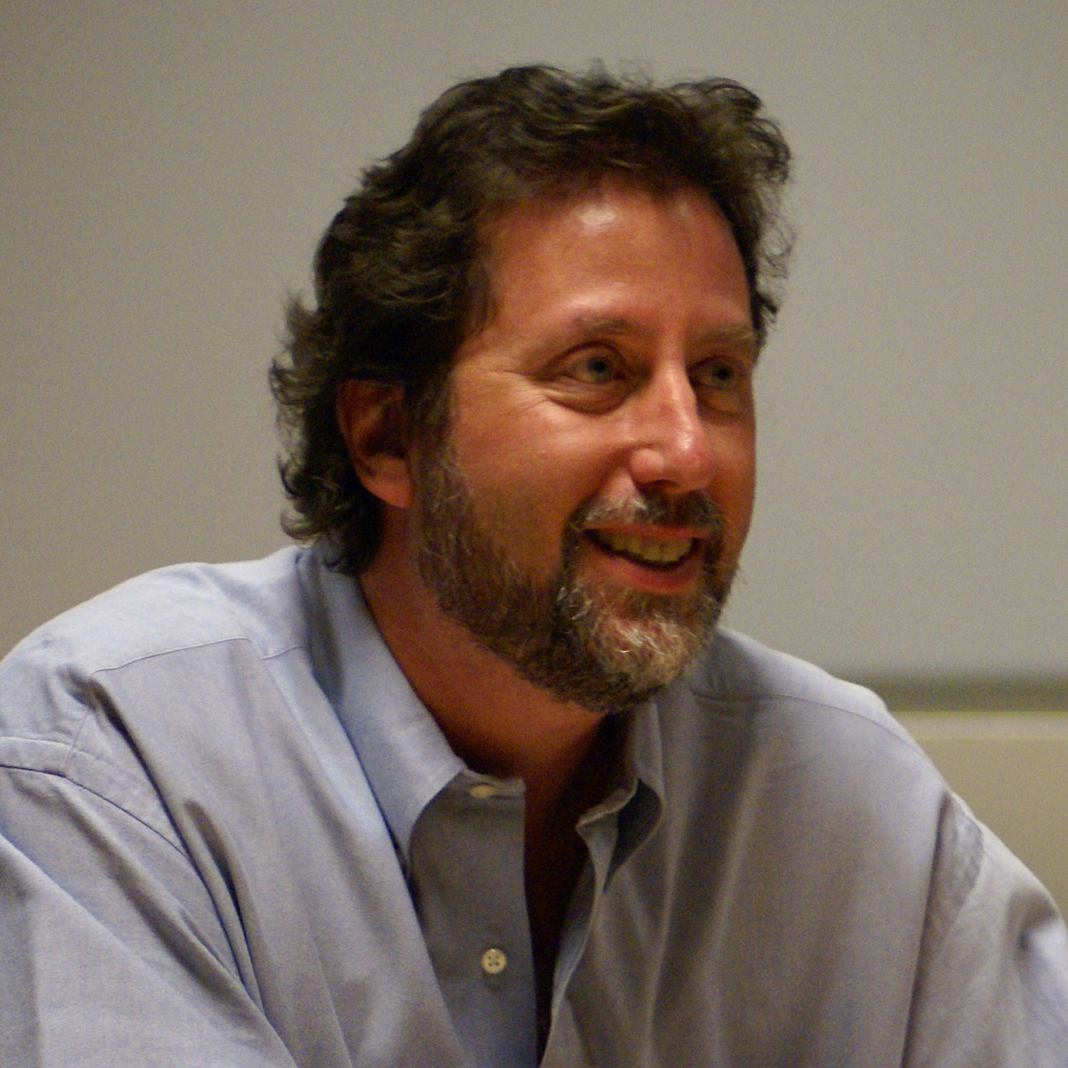 Tabletop and video game designer Jordan Weisman in 2006